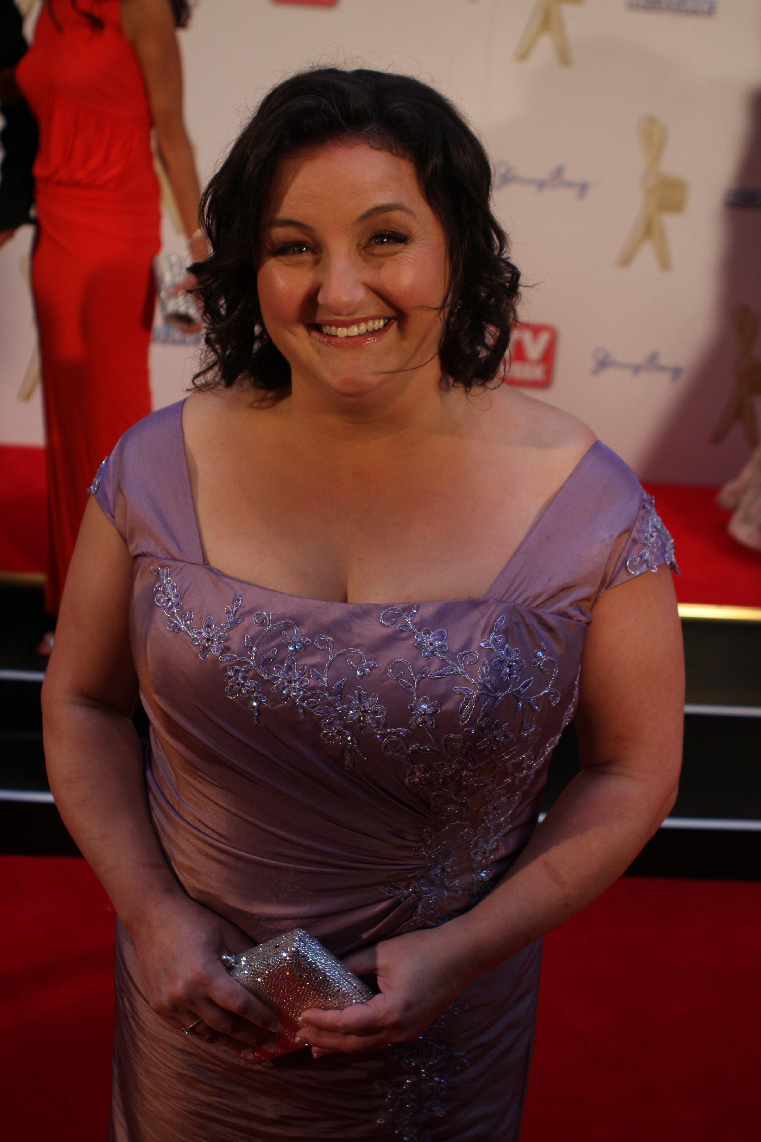 Julie Goodwin attends the 2011 Logie Awards.